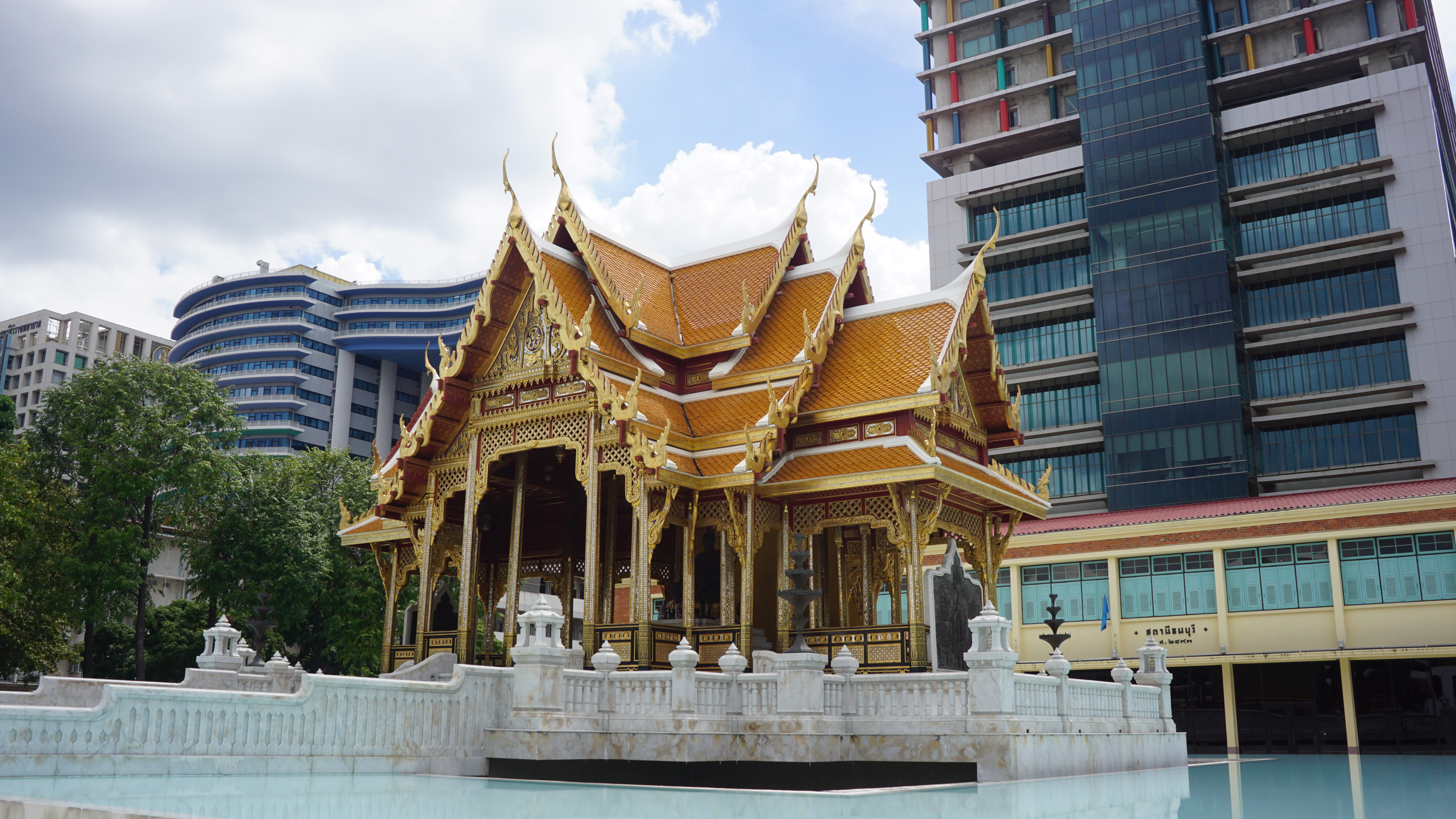 Thailand pavilion in Siriraj Hospital